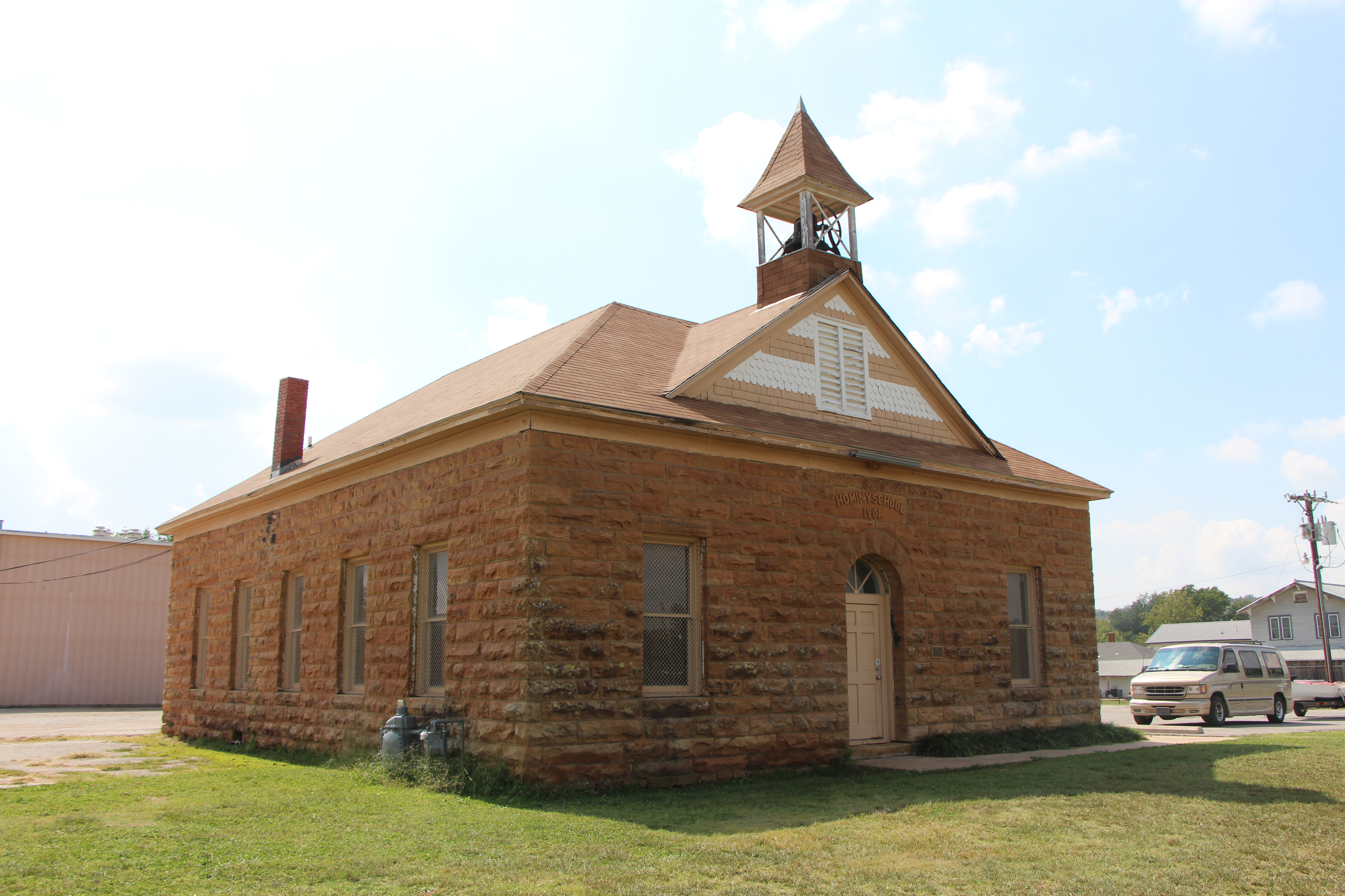 Hominy School, north east side